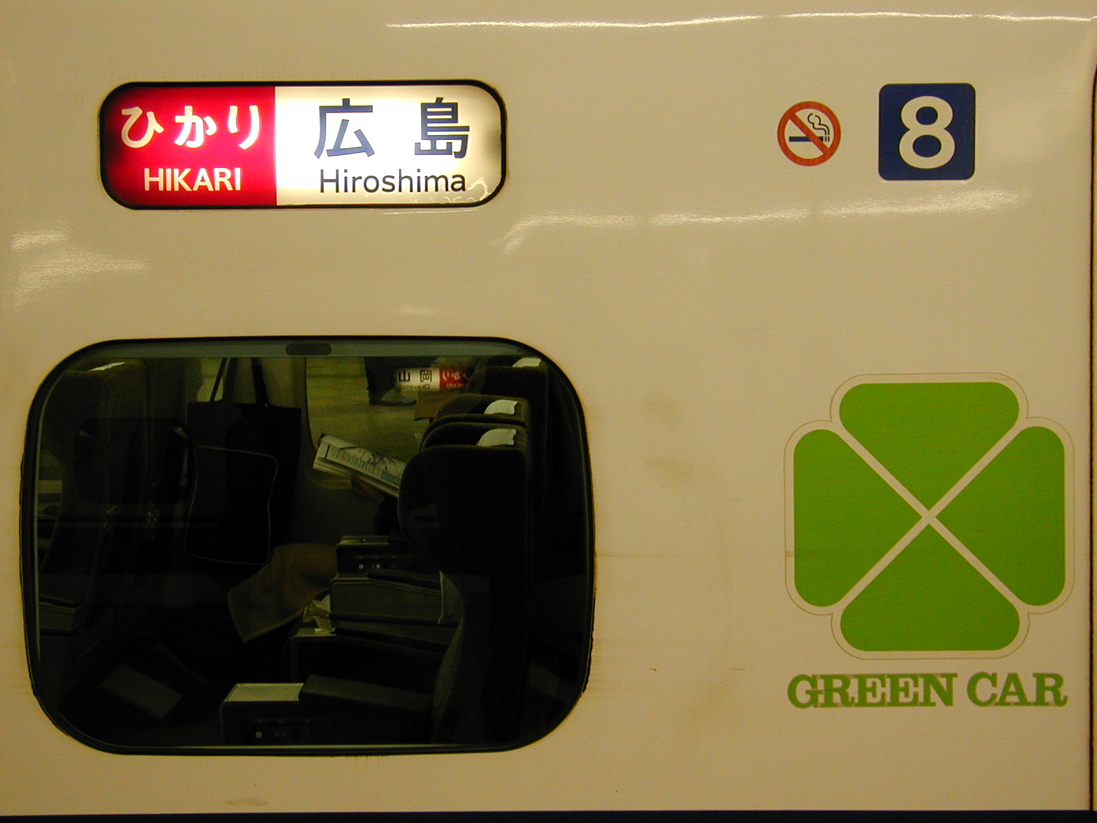 "Green Car" on Shinkansen 300 series EMU for Hikari